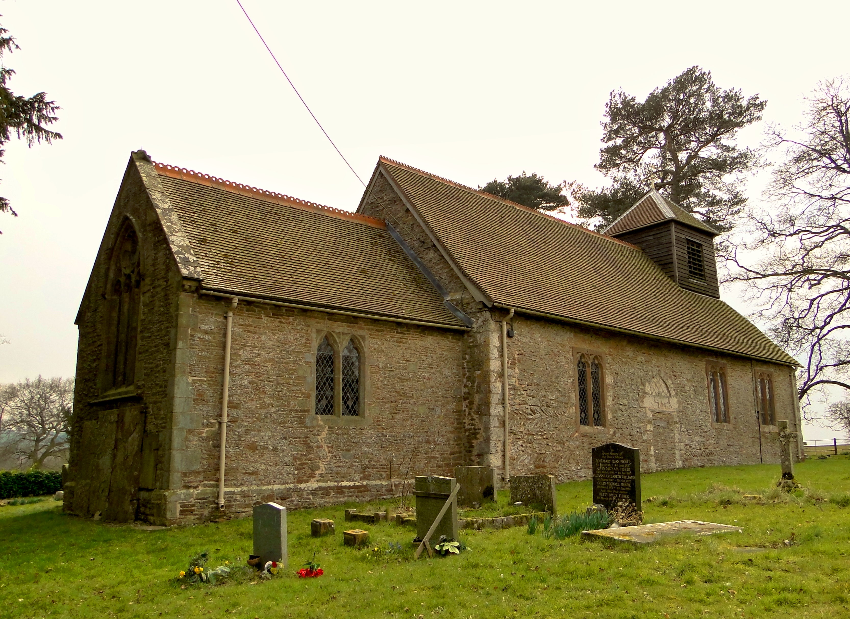 St Leonard church in Hatfield (Herefordshire) several rows of herring-bone masonry can be seen in the north wall of the nave